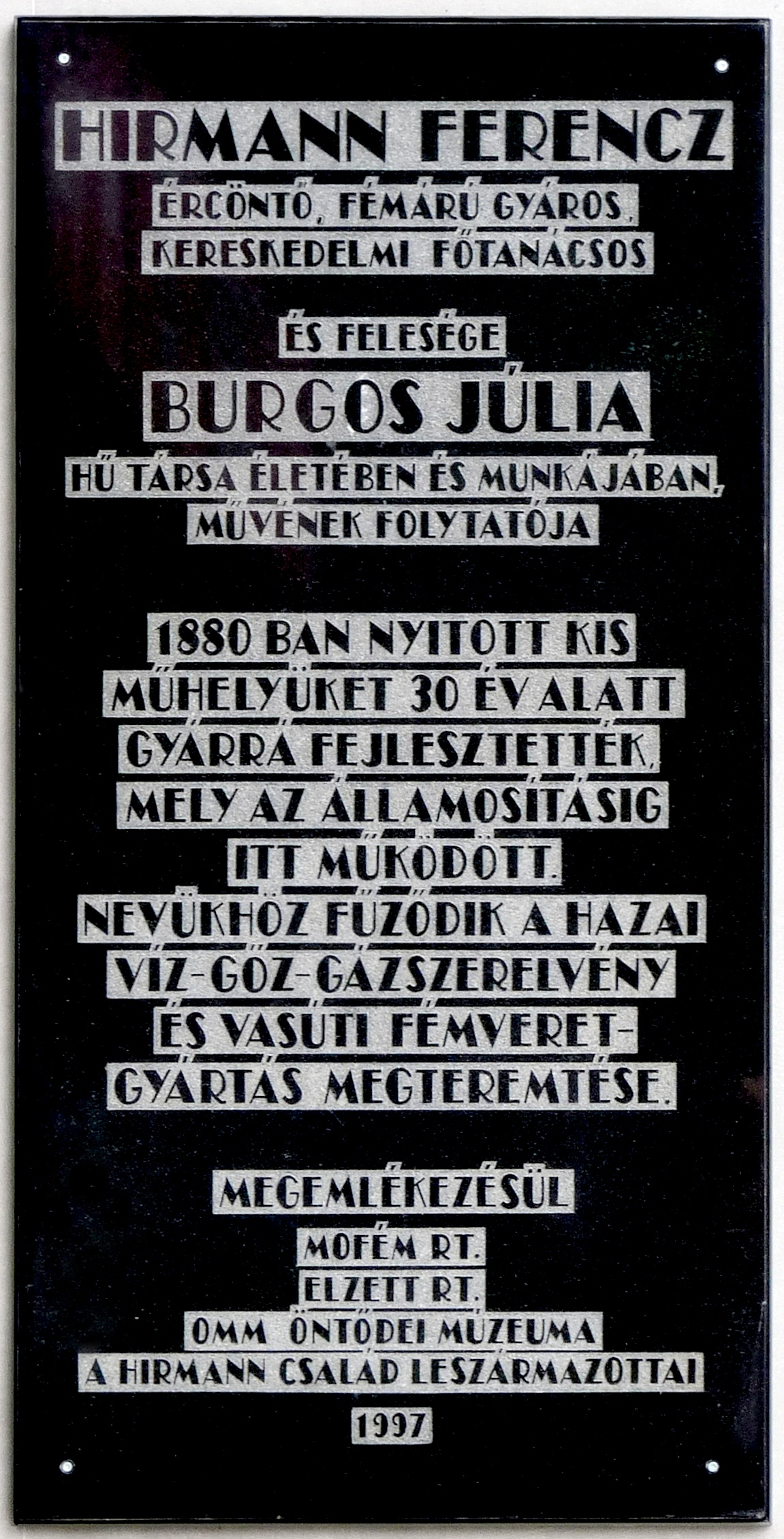 Commemorative plaque to Mr. Ferenc Hirmann (1855-1939) Hungarian industrialist, founding owner of the "Hirmann Ferenc Foundry of Metals, Copper Objects and Waggon Equipments Factory", vice-president of the National Association of Industries in Hungary, as well as to his wife Mrs. Júlia Burgos (1867-1955) who ran the factory after the death of her husband. Originally this plaque was affixed to the wall of the former Elzett Lock and Padlock Factory and inaugurated June 27, 1997 and then removed before the demolition of the facilities in 2010 and stored in the warehouse of the Kaba Elzett Ltd. Its replacement on the wall of the business center erected meanwhile on this site and its re-inauguration was held on June 14, 2018. (Budapest, District XIII, Váci Avenue Nr 117-119)